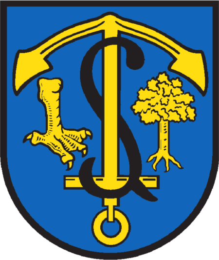 Coat of arms of Wörth am Rhein